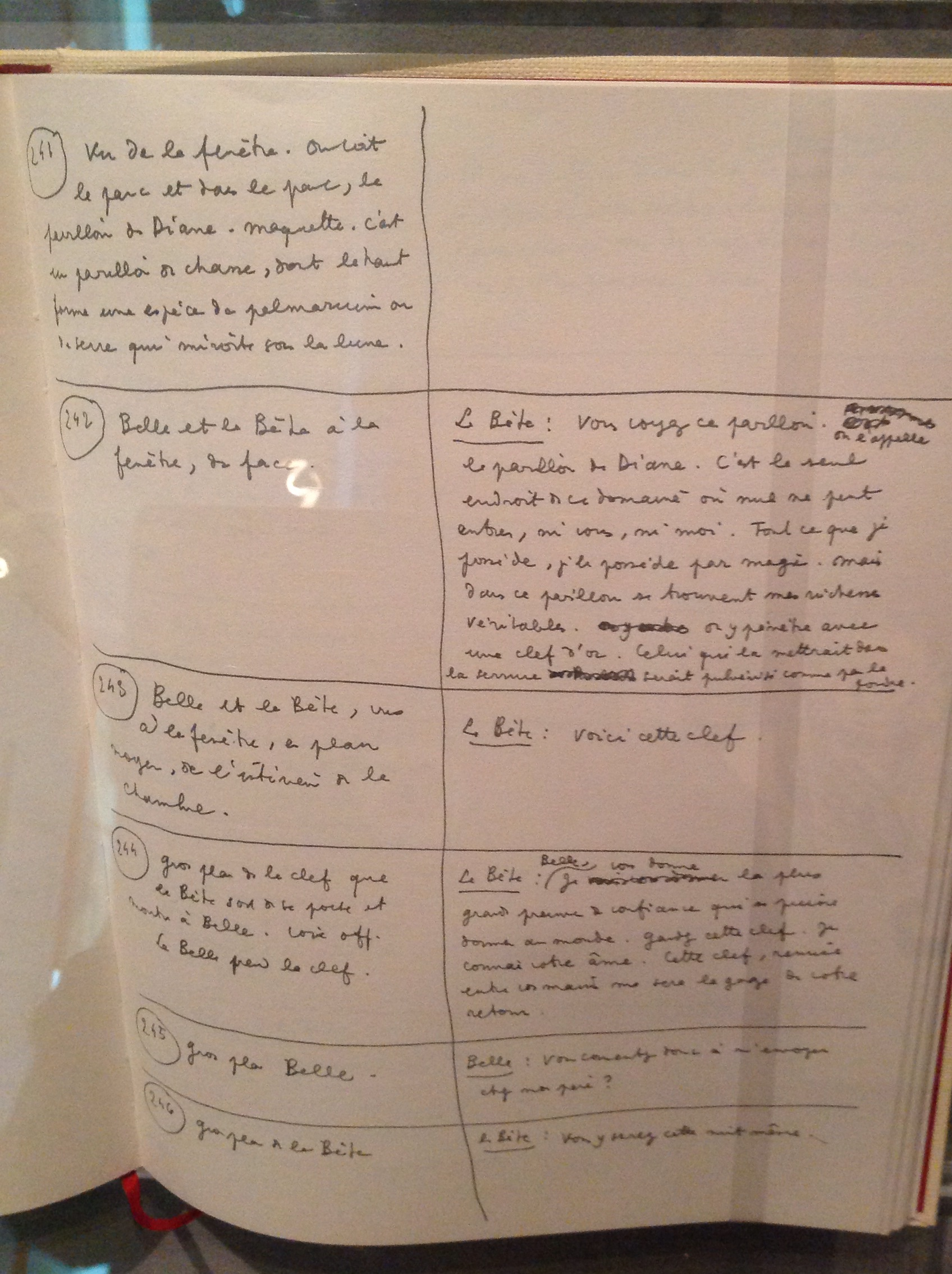 Page of the original hand-written film scenario of "Beauty and the Beast" by Jean Cocteau, displayed at the Jean Cocteau House in Milly-la-Forêt, France